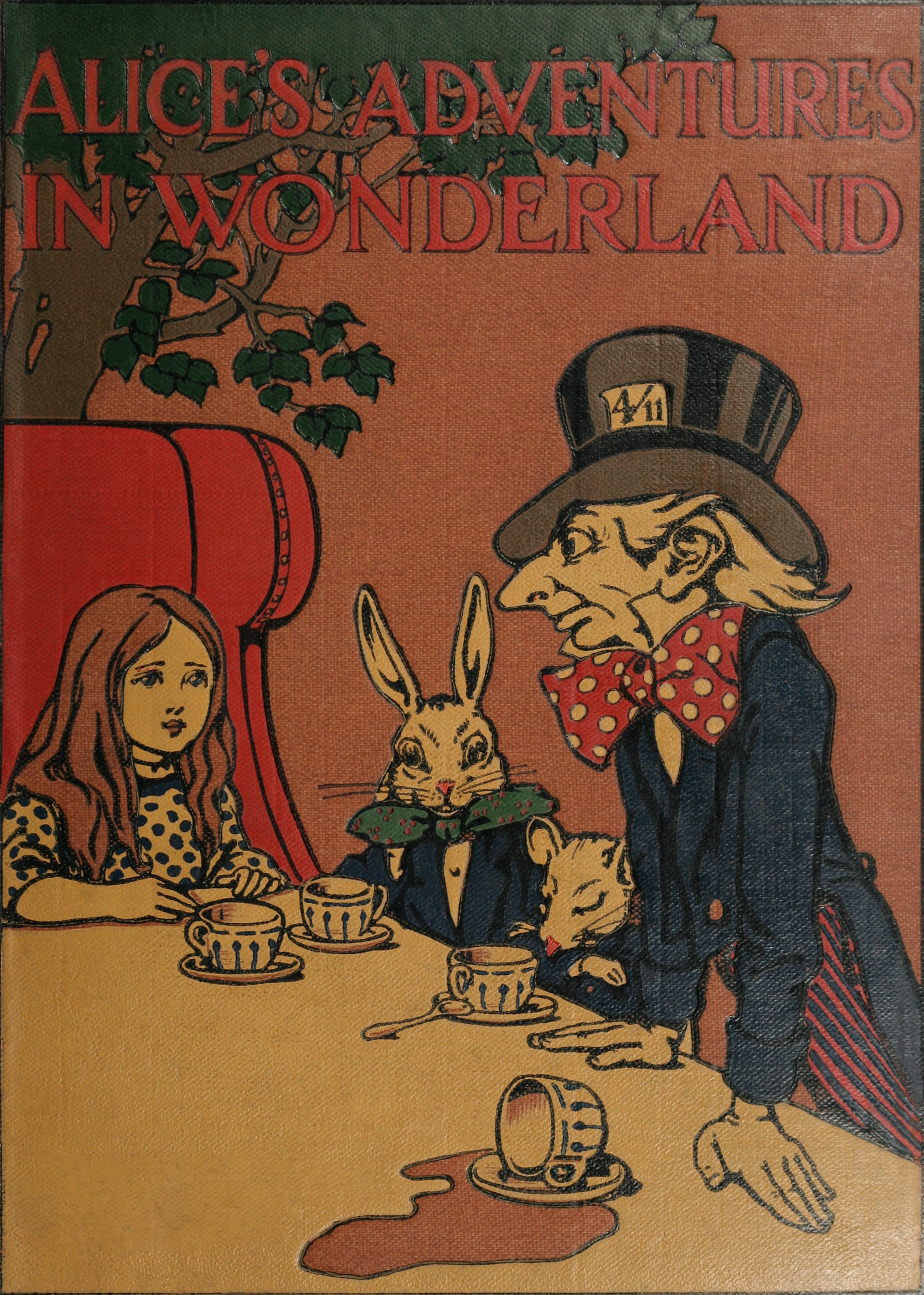 The cover of Alice's Adventures in Wonderland, written by Lewis Carroll and illustrated by Charles Robinson.